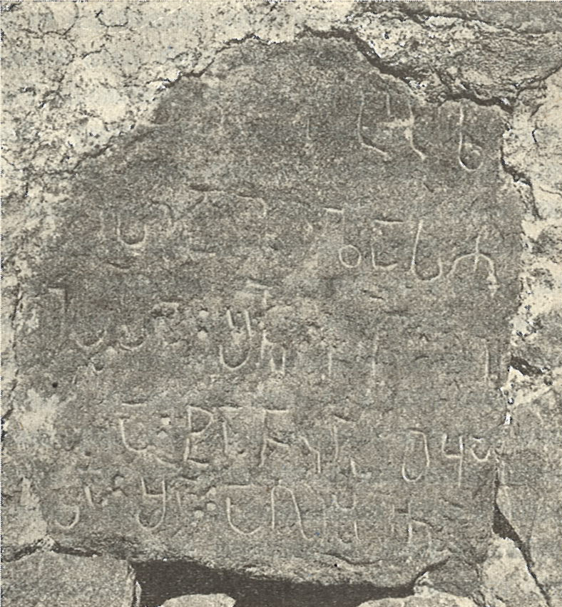 A stone with a Georgian inscription from the Tandzoti mosque. From Nicholas Marr's dairy of his travels to Shavsheti and Klarjeti (1911).